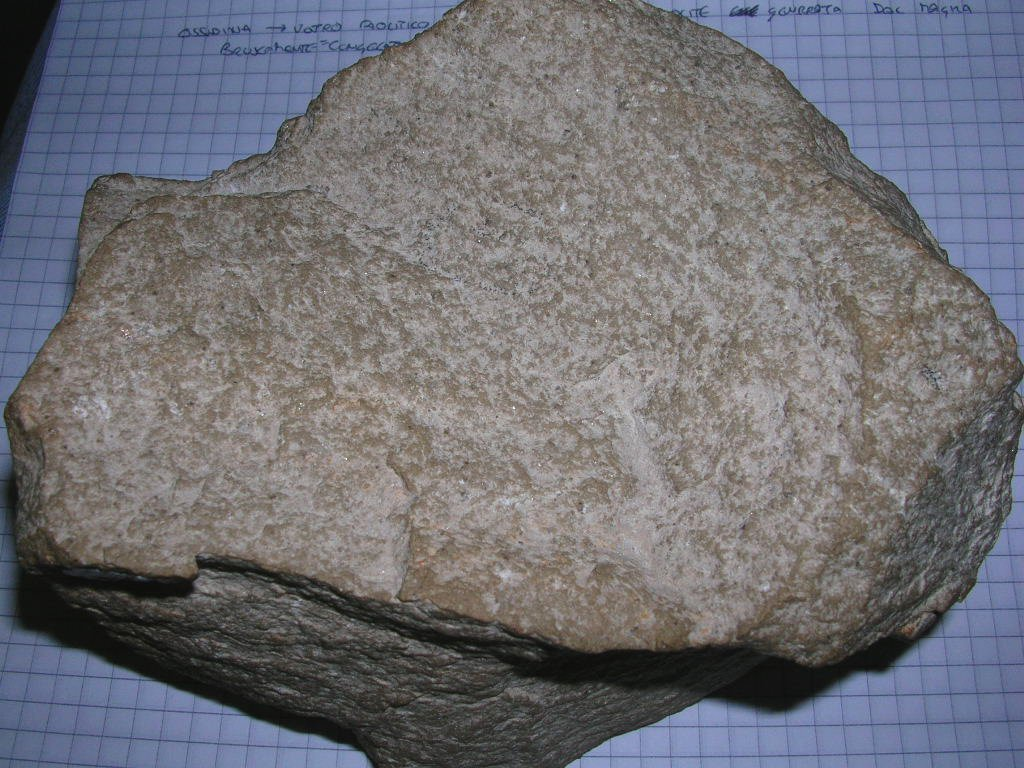 Yellowish Euganea trachyte. Porphyritic texture. It contains great amunt of sanidine (a potassium feldspar), some biotite crystals (black, metallic shine), few plagioclase (whitish) and no quartz. Sample from the Euganean Hills (PD), Italy.